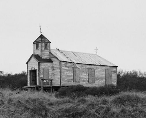 St. Nicholas Church, Ekuk, Alaska. Note that the Library of Congress indexing places this (and related images) in Ekwok, Alaska, but the HABS data pages describe it as being in Ekuk.